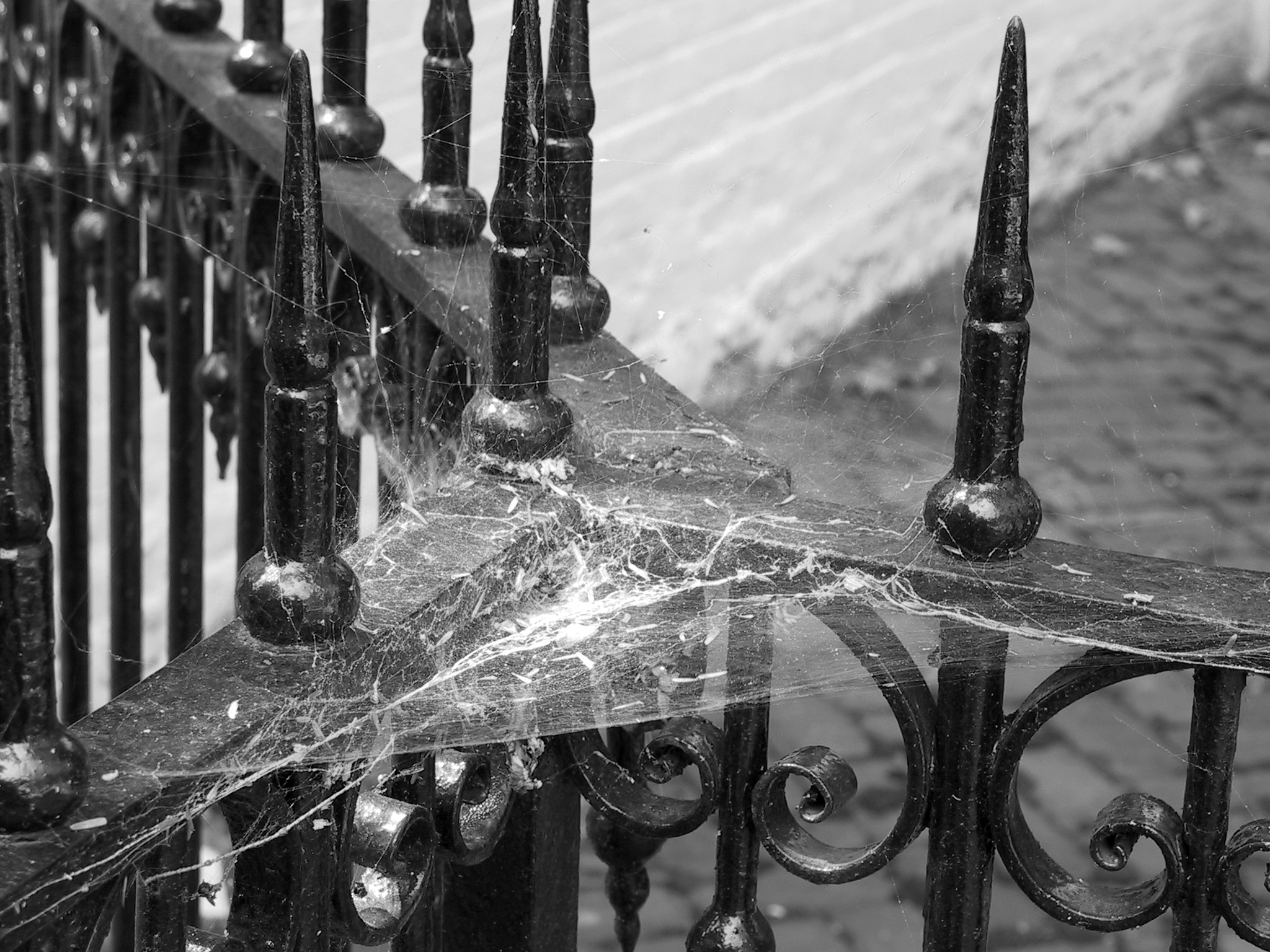 Cobwebs on a fence in Annapolis, Maryland